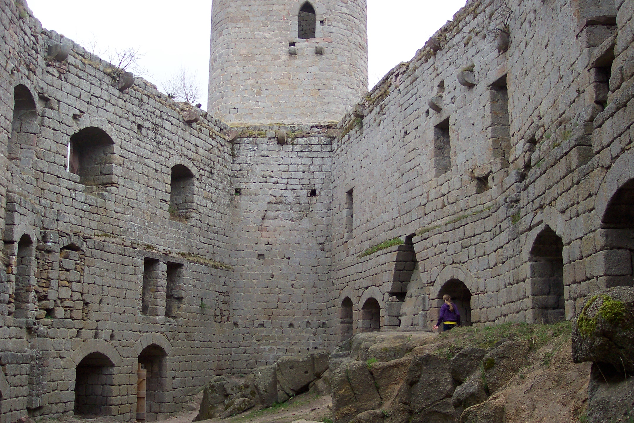 Ward of the castle of Andlau (Alsace)